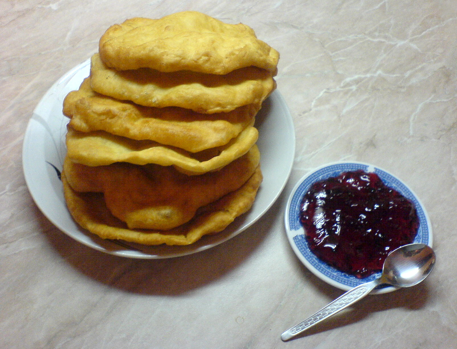 Bulgarian Mekitsi and jam. Mekitsa is known as lángos in Hungary.